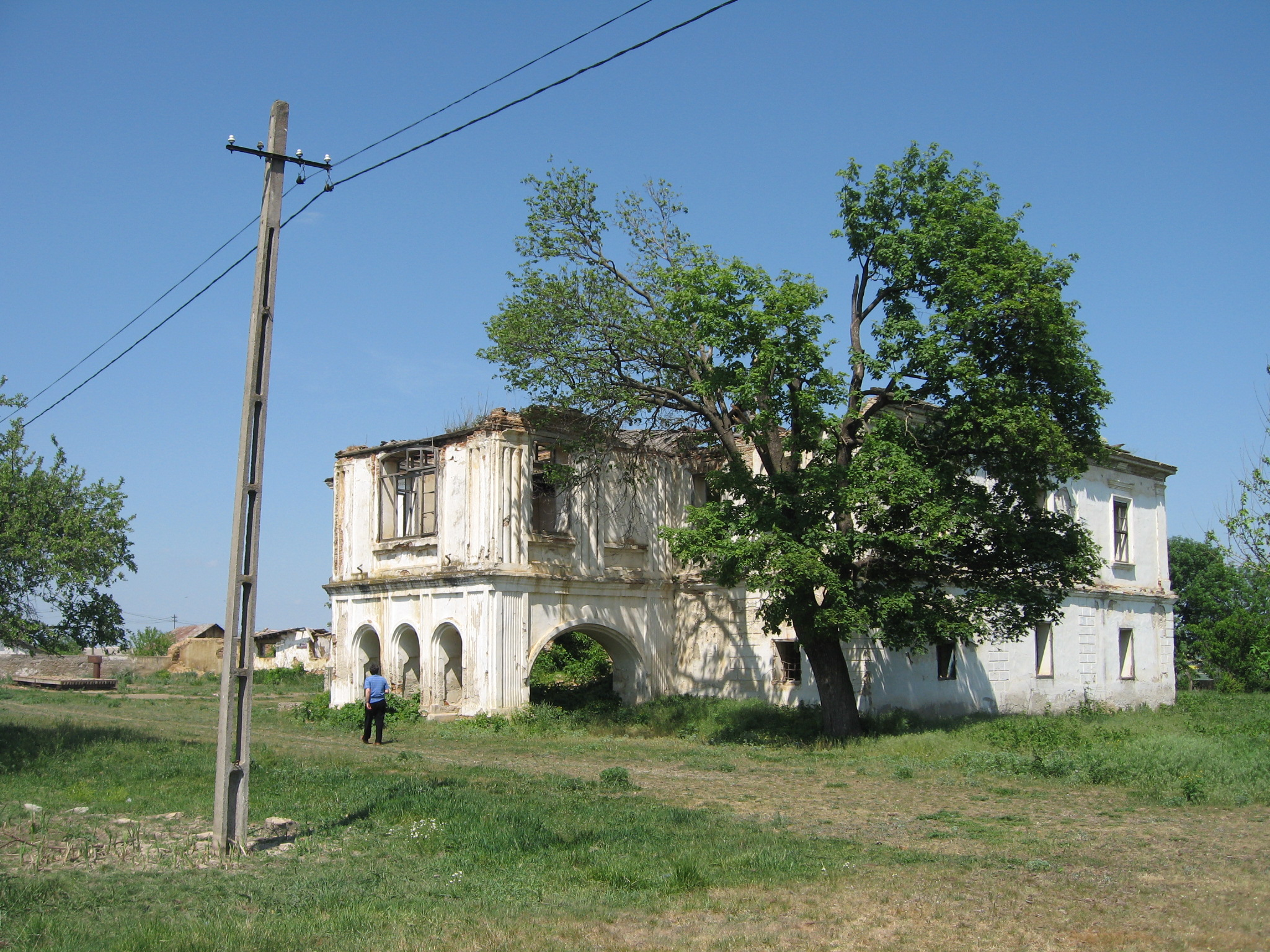 Lordly house of Tupilati